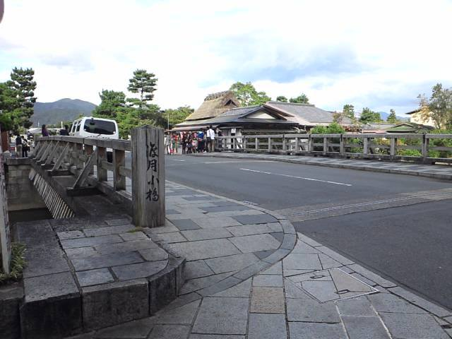 Togetsu-kobashi bridge at Arashiyama, Kyoto Japan.